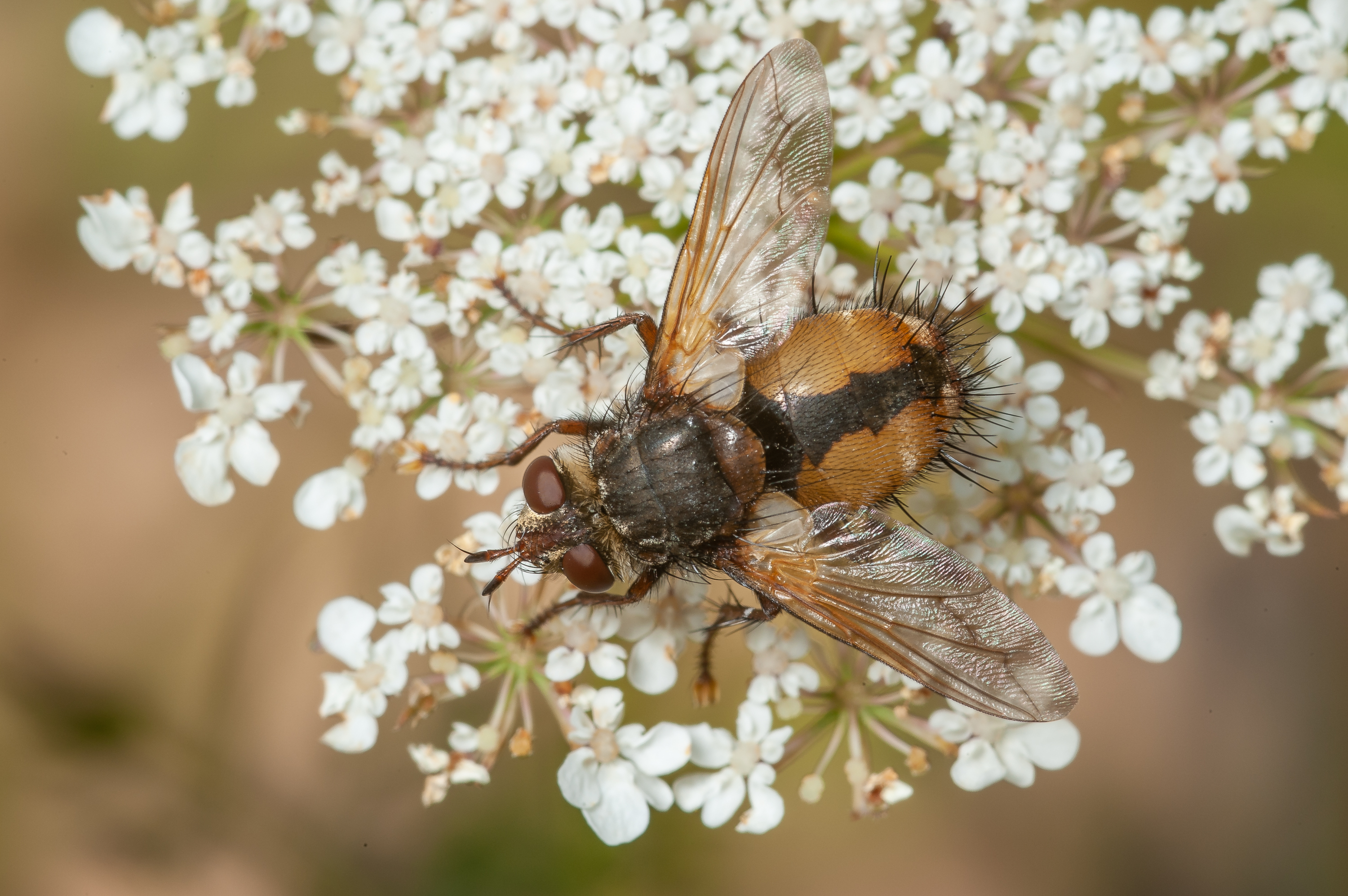 Tachina fera, juniper heath in the Kornberg nature reserve near Gruibingen, Germany